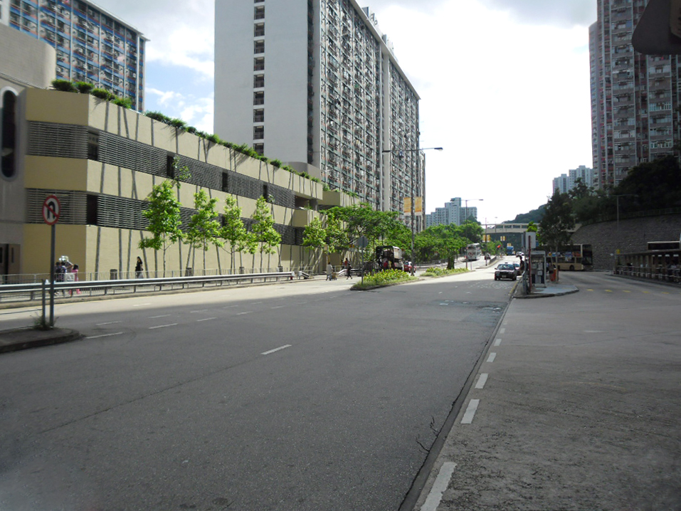 Chuk Yuen Road, Wong Tai Sin District 中文（香港）: 竹園道近竹園邨巴士總站一段